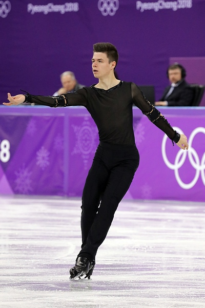 Yaroslav Paniot at the 2018 Winter Olympic Games